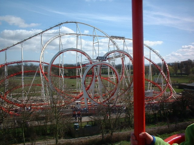 The Magnum. This ride is at Flamingo Land Theme Park. It was taken from the Cable car at approximately SD779797 looking in an easterly direction.